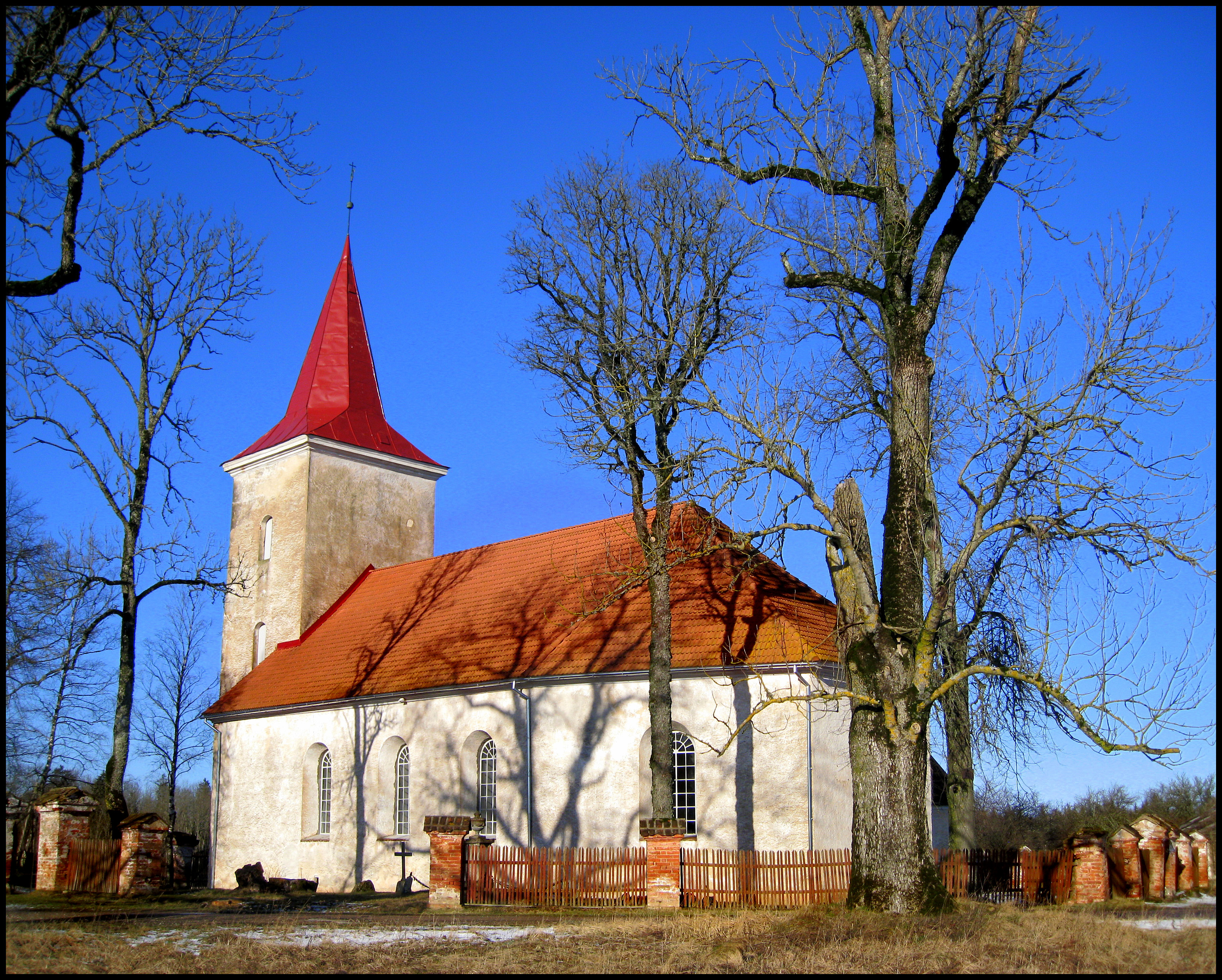 Stende Evangelical Lutheran ChurchLatviešu: Stendes evaņģēliski luteriskā baznīca